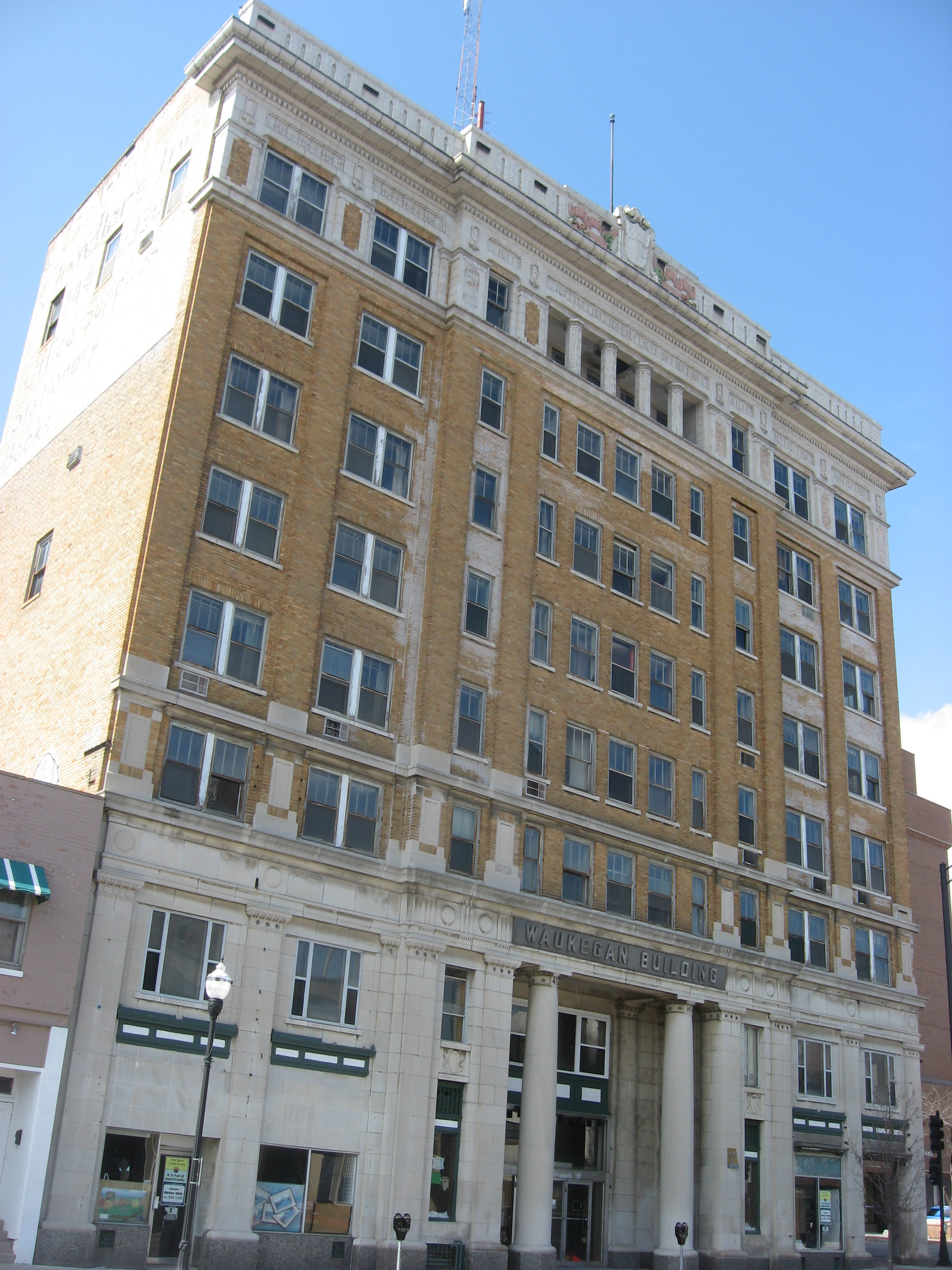 Front of the Waukegan Building, located at 4 S. Genesee Street in Waukegan, Illinois, United States. Built in 1925, it is listed on the National Register of Historic Places.